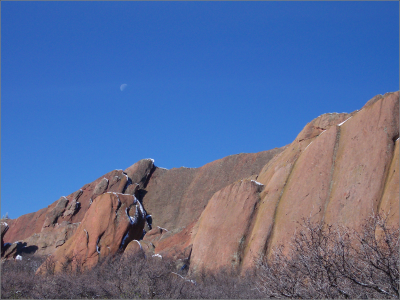 Roxborough State Park